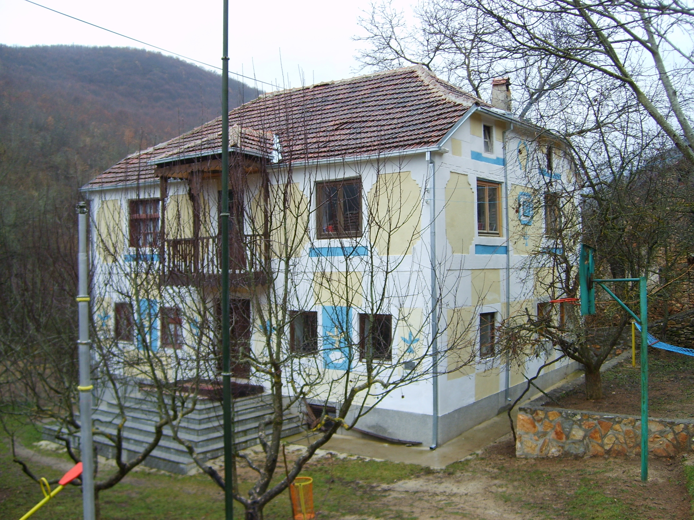 Albi.JPG